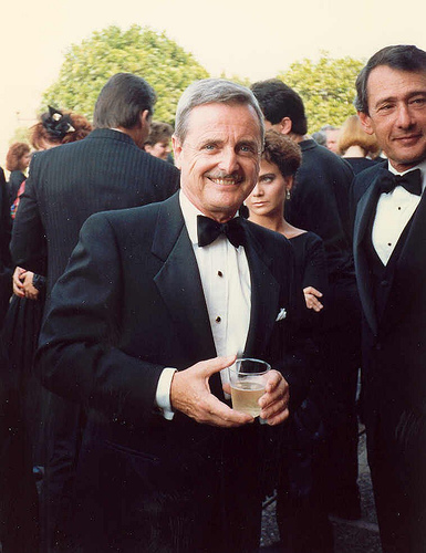 William Daniels on the red carpet at the 39th Annual Emmy Awards 9/20/87